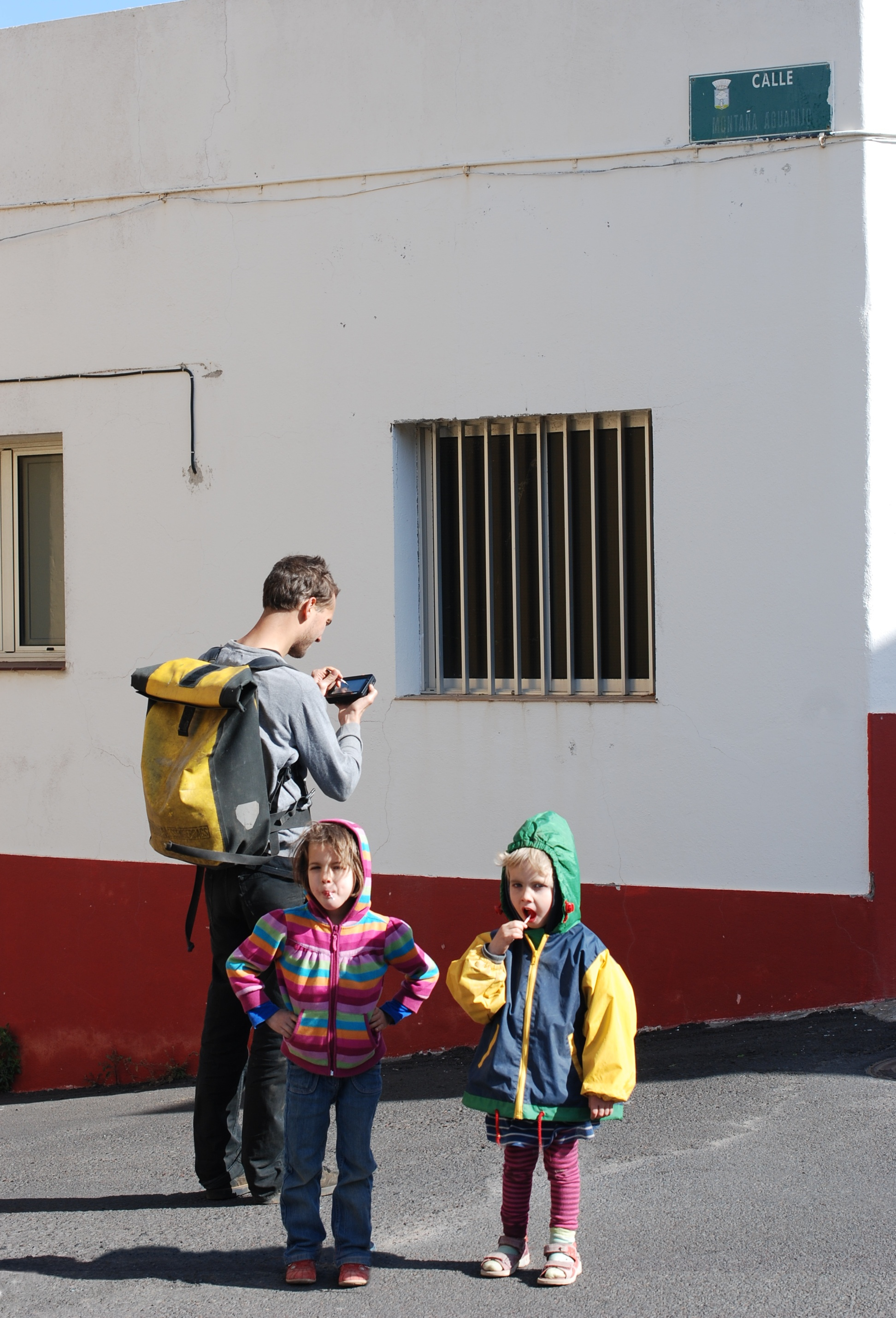 Mapping streets for Openstreetmap on a family getaway on El Hierro island. (Street sign identifies location as Calle Montaña Aguarijo, Valverde, El Hierro island, Santa Cruz province, Canary Islands, Spain.)